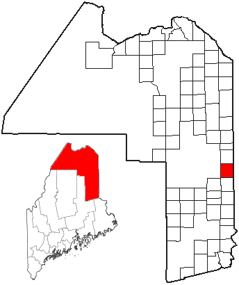 Adapted from U.S. Census Bureau maps (American FactFinder) and Wikipedia's ME county maps by Bumm13.